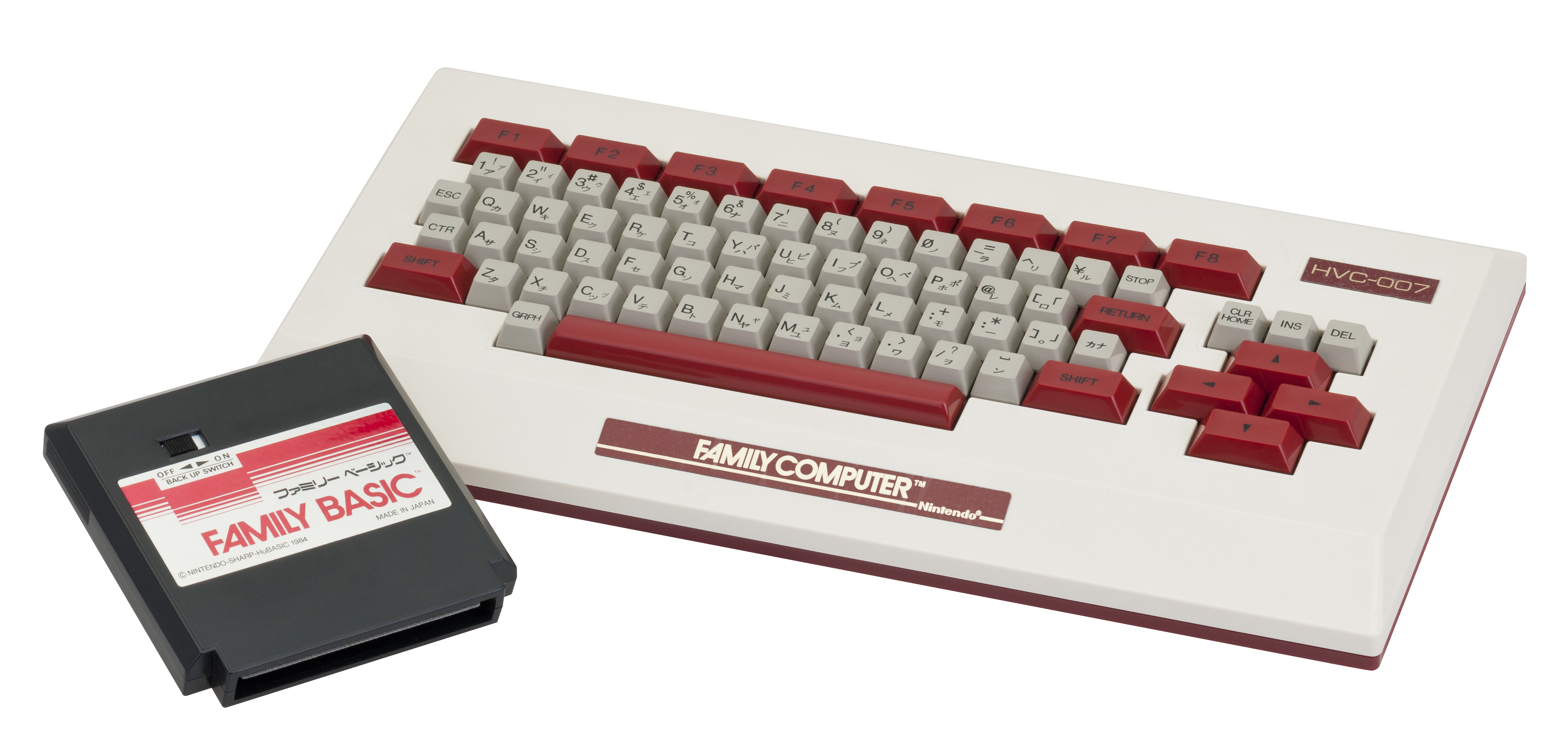 The Family Basic keyboard add-on and programming cartridge for the Nintendo Famicom. Only released in Japan, this kit allowed users to turn their Nintendo Famicoms into a Basic programming machine.